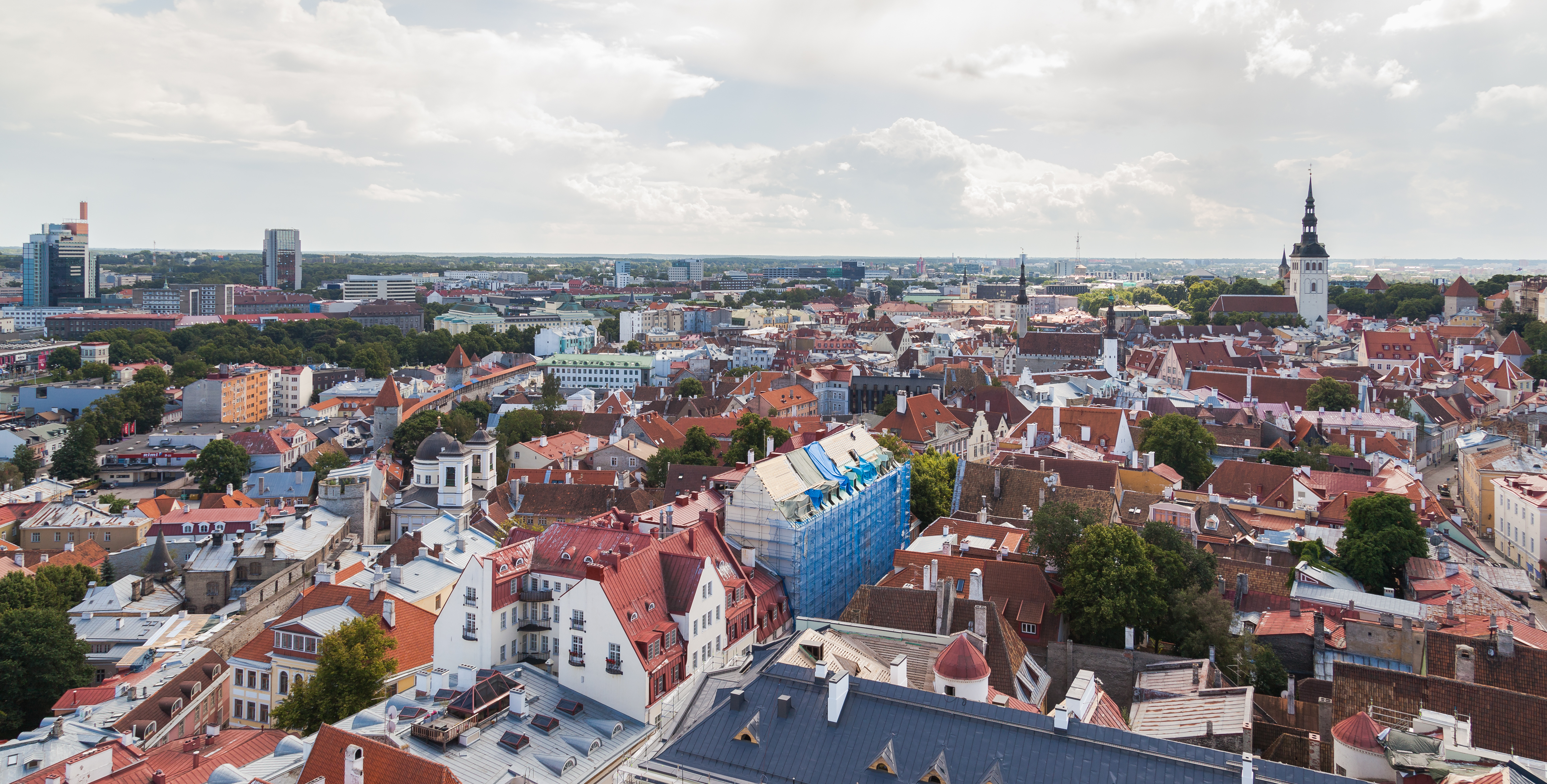 Panoramic view of Tallinn from Olaf's church, Estonia